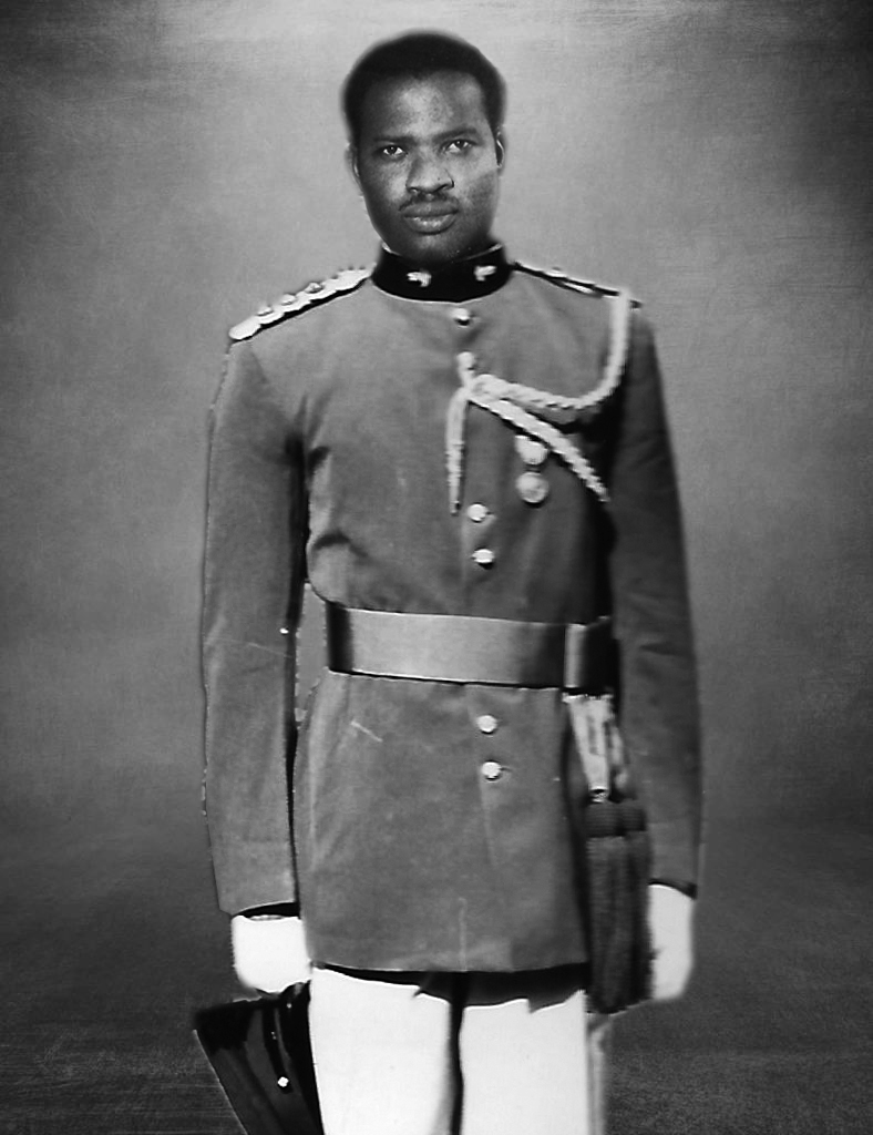 Capt. Ejike Obumneme Aghanya decked in Nigerian Army Ceremonial Regalia. Lagos, Nigeria. 1963